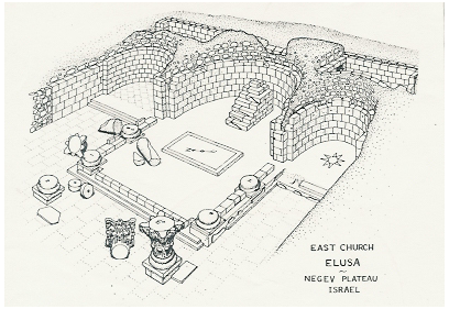 Isometric drawing of Elusa Cathedral (East Church) made in connection with 1980 archaeological dig at Haluza, Israel